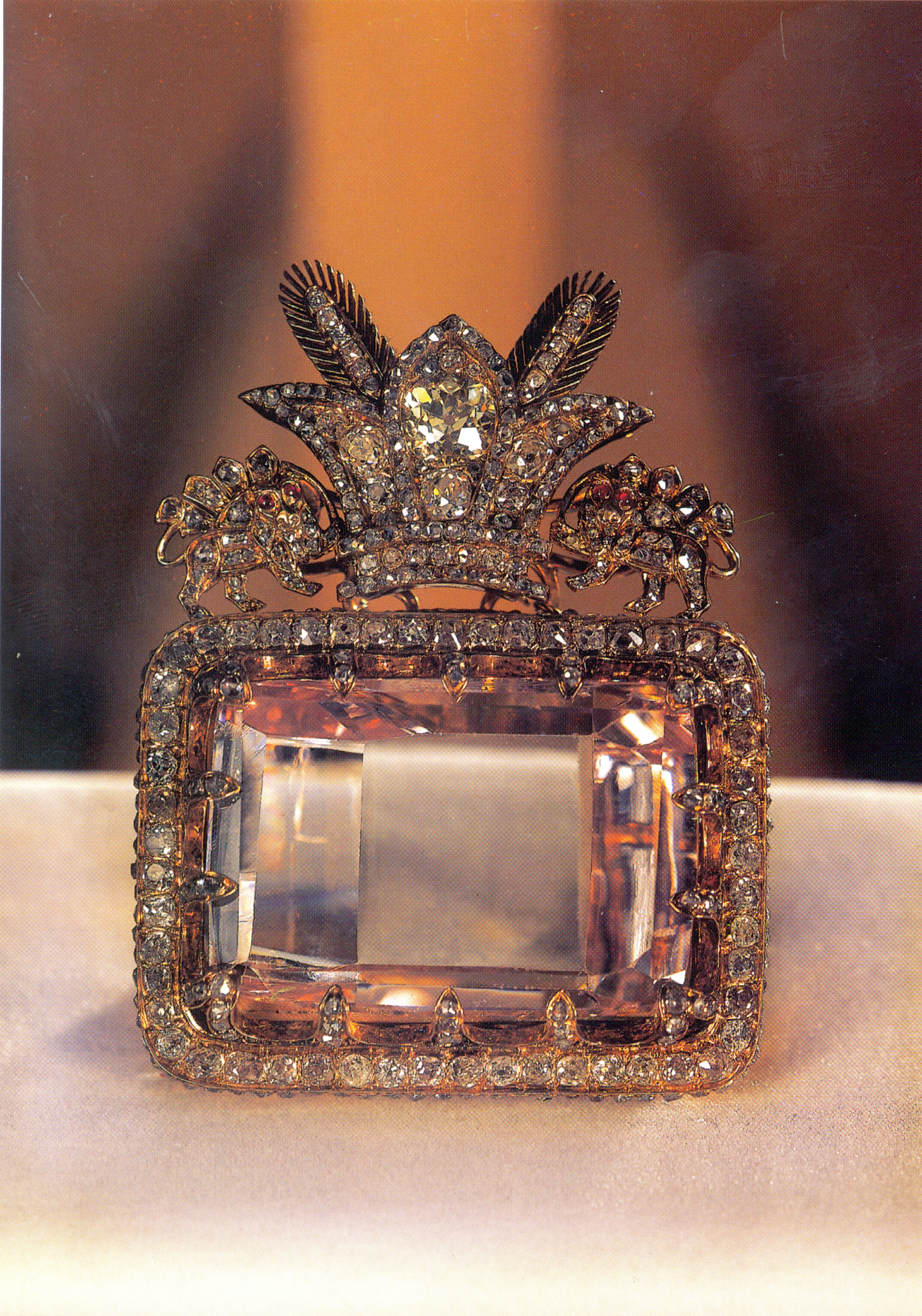 The Daria-e Noor (Sea of Light) Diamond from the collection of the national jewels of Iran at Central Bank of Islamic Republic of Iran